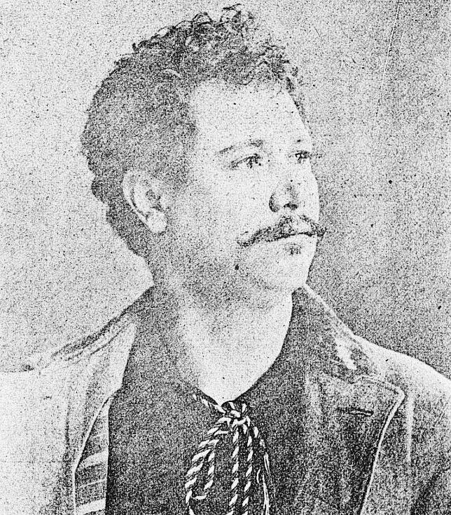 Escritor y político guatemalteco Rafael Spínola, creador de las Fiestas Minervalias del gobierno de Manuel Estrada Cabrera.